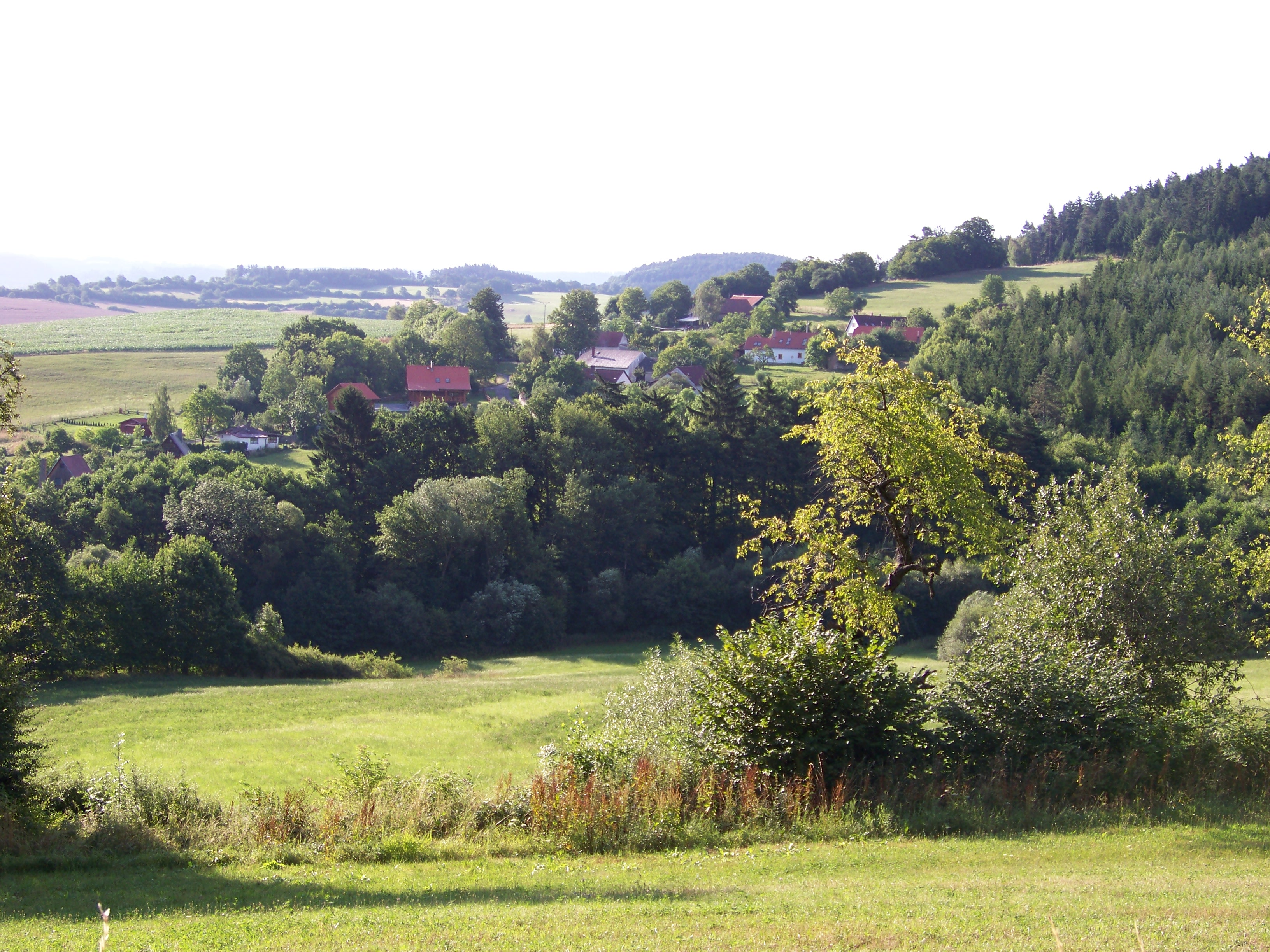 Jesenice-Boudy-Přední Boudy, Příbram District, Central Bohemian Region, the Czech Republic.